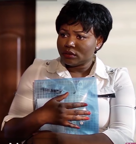 Nigerian Actress Ruth Kadiri - Dude Makes Sexual passes at Ruth Kadiri During Interview In " First Class